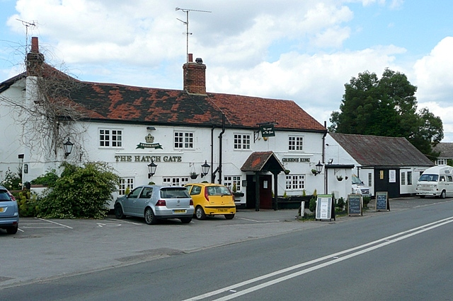 The Hatch Gate public house, Burghfield, Berkshire